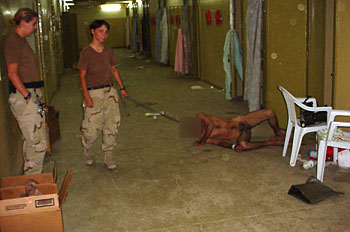 8:16 p.m., Oct. 24, 2003. The detainee "GUS" has a strap around his neck. The detainee is being pulled from his cell as a form of intimidation. SPC AMBUHL is in the picture observing the incident. CPL GRANER is taking the picture. SOLDIER: PFC ENGLAND; SPC AMBUHL. All caption information is taken directly from CID materials. U.S. Army / Criminal Investigation Command (CID). Seized by the U.S. Government.